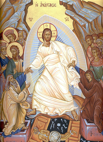 Icon of the Resurrection